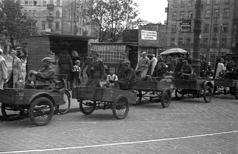 Month before WarsawUprising: Rickshaws at Iron Gate Square. In the back townhouses at Graniczna Street: at Plac Żelaznej Bramy 3 and Plac Żelaznej Bramy 7 (corner of Graniczna 17) streets.